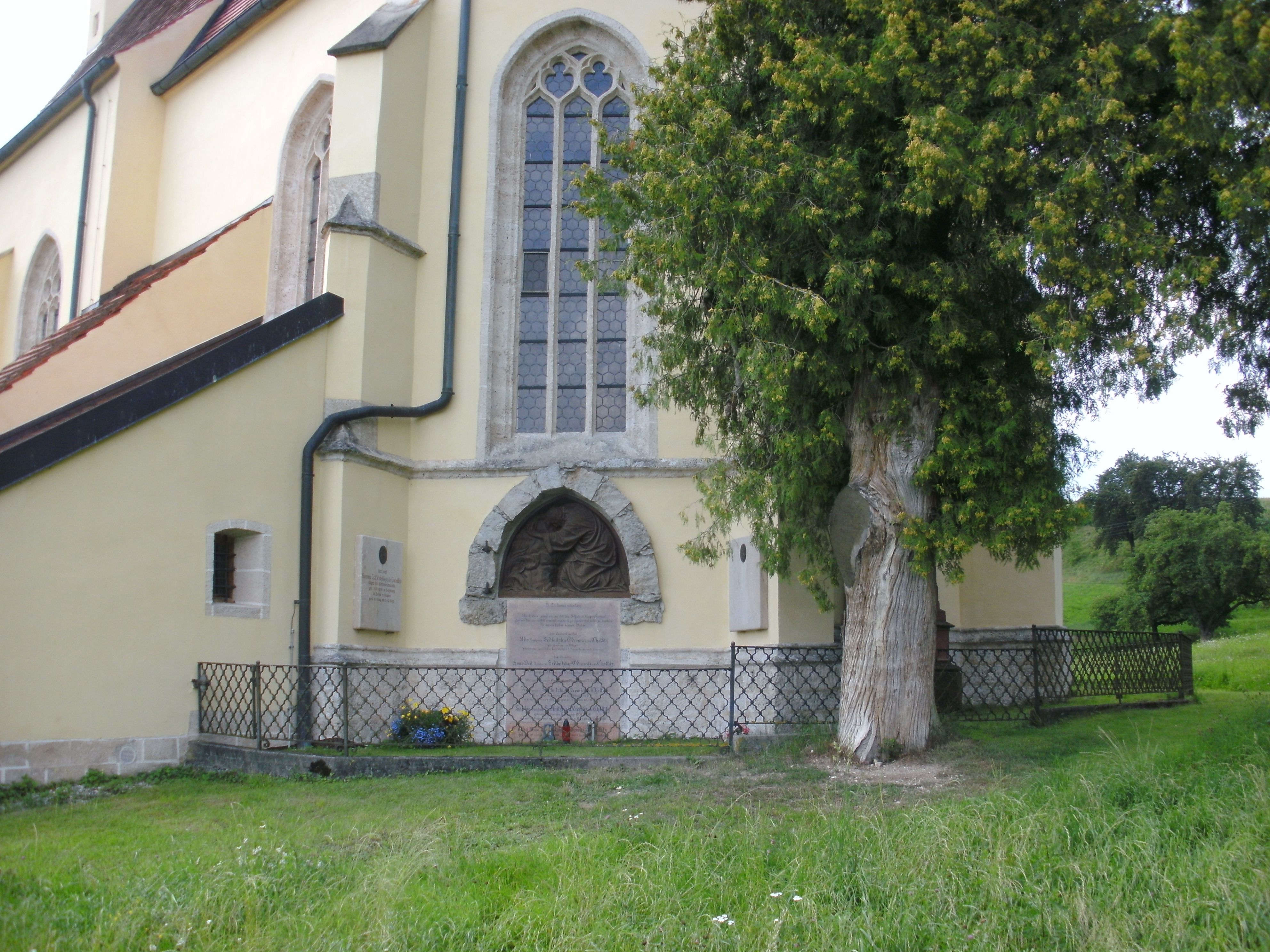 Funerary monument of former owners of Ering palace at the church of St Anna near Ering, Bavaria